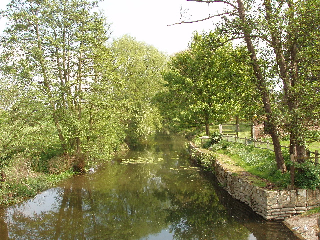 Abbey River, Chertsey. Abbey River is a sidewater of the Thames. Here it is just north of the abbey site. Photo taken from the Ferry Lane bridge over the river.